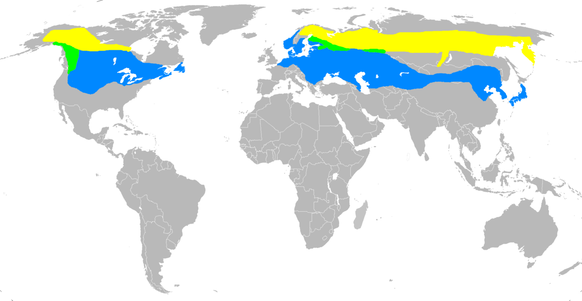 Bohemian Waxwing (Bombycilla garrulus) distribution map. Breeding summer visitor Resident year-round Winter visitor (All ranges are approximate, and many birds occur outside the main wintering range even in non-irruption years.)